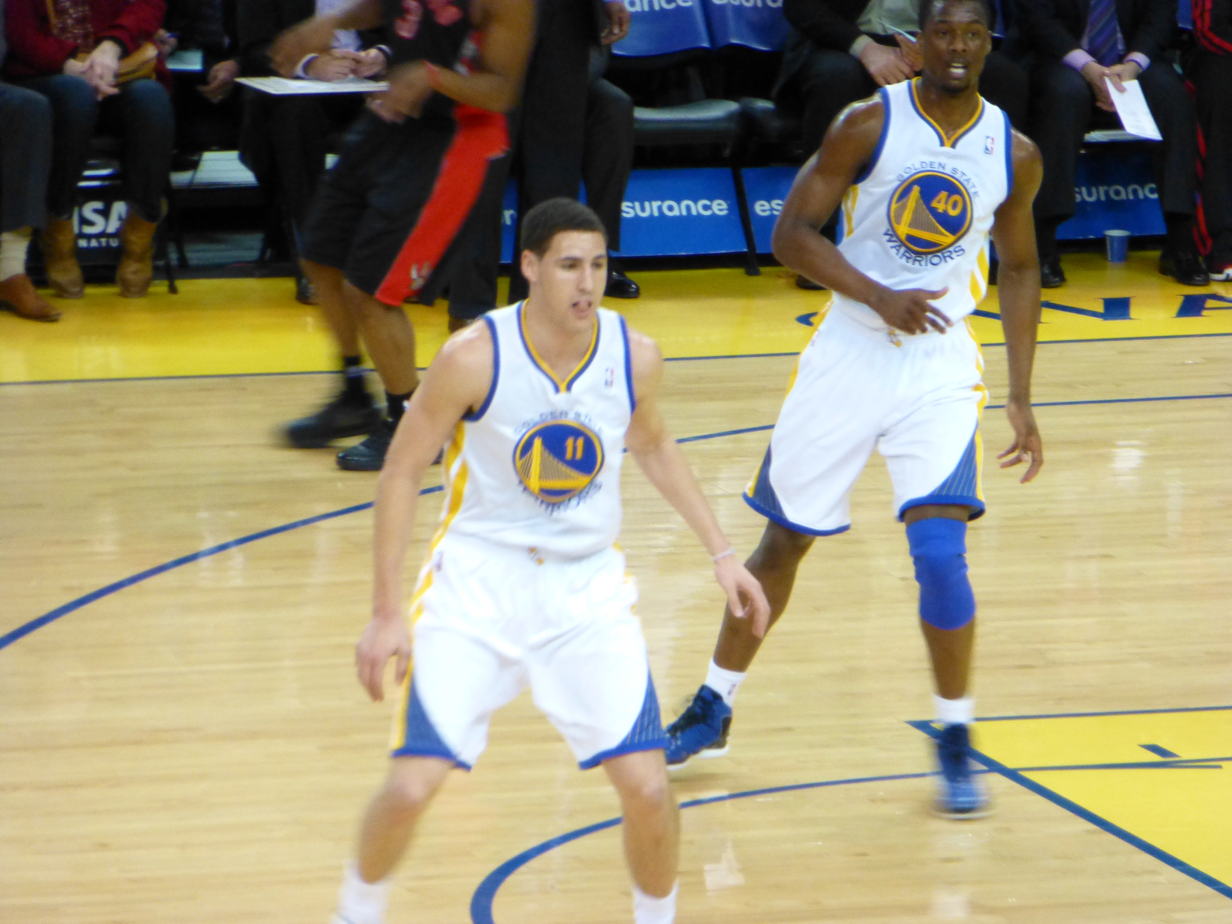 Harrison Barnes and Klay Thompson, Toronto Raptors at Golden State Warriors March 4, 2013